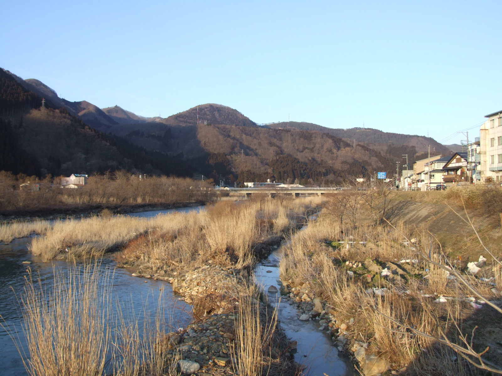 Eai River. Naruko-Onsen, Ōsaki, Miyagi prefecture, Japan. Eastward to the Naruko Grand Bridge (Naruko Ōhashi).